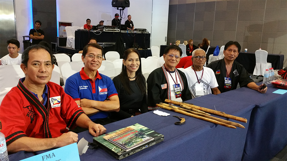 Senior Grandmasters of Modern Arnis: GMs Samuel Bambit Dulay, Rene Tongson, Jerry Dela Cruz, Rodel Dagooc, Pepito Robas and Peachie Baron Saguin of Kalis Ilustrisimo